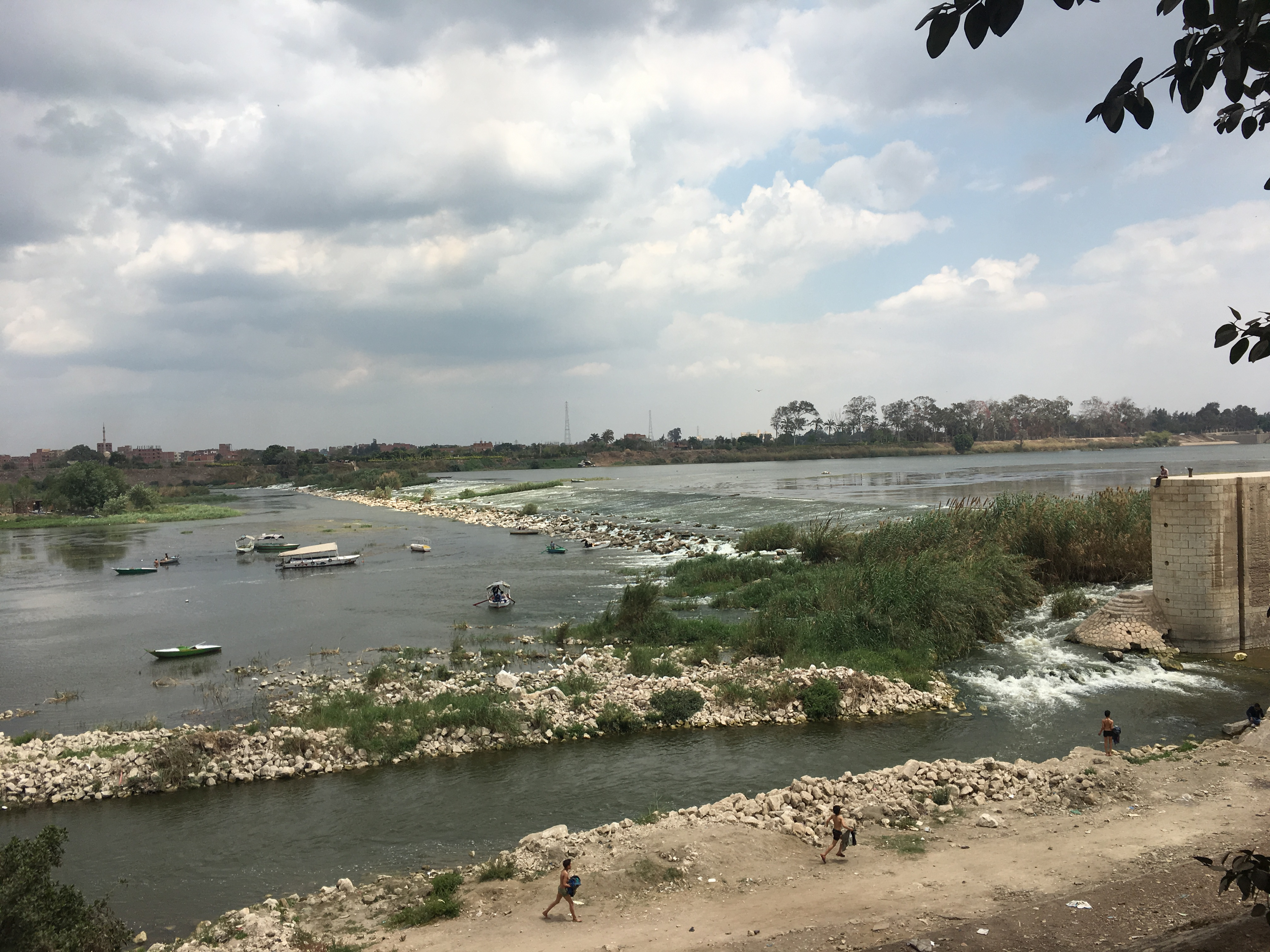 El Qanater El Khayreya , photo by Hatem Moushir